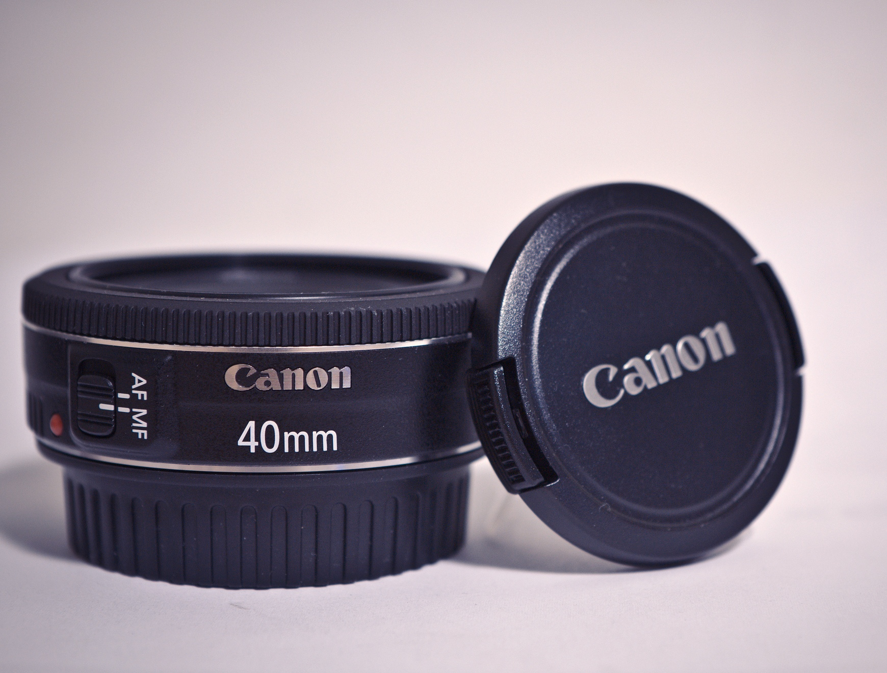 Canon EF 40mm 2.8 STM lens.